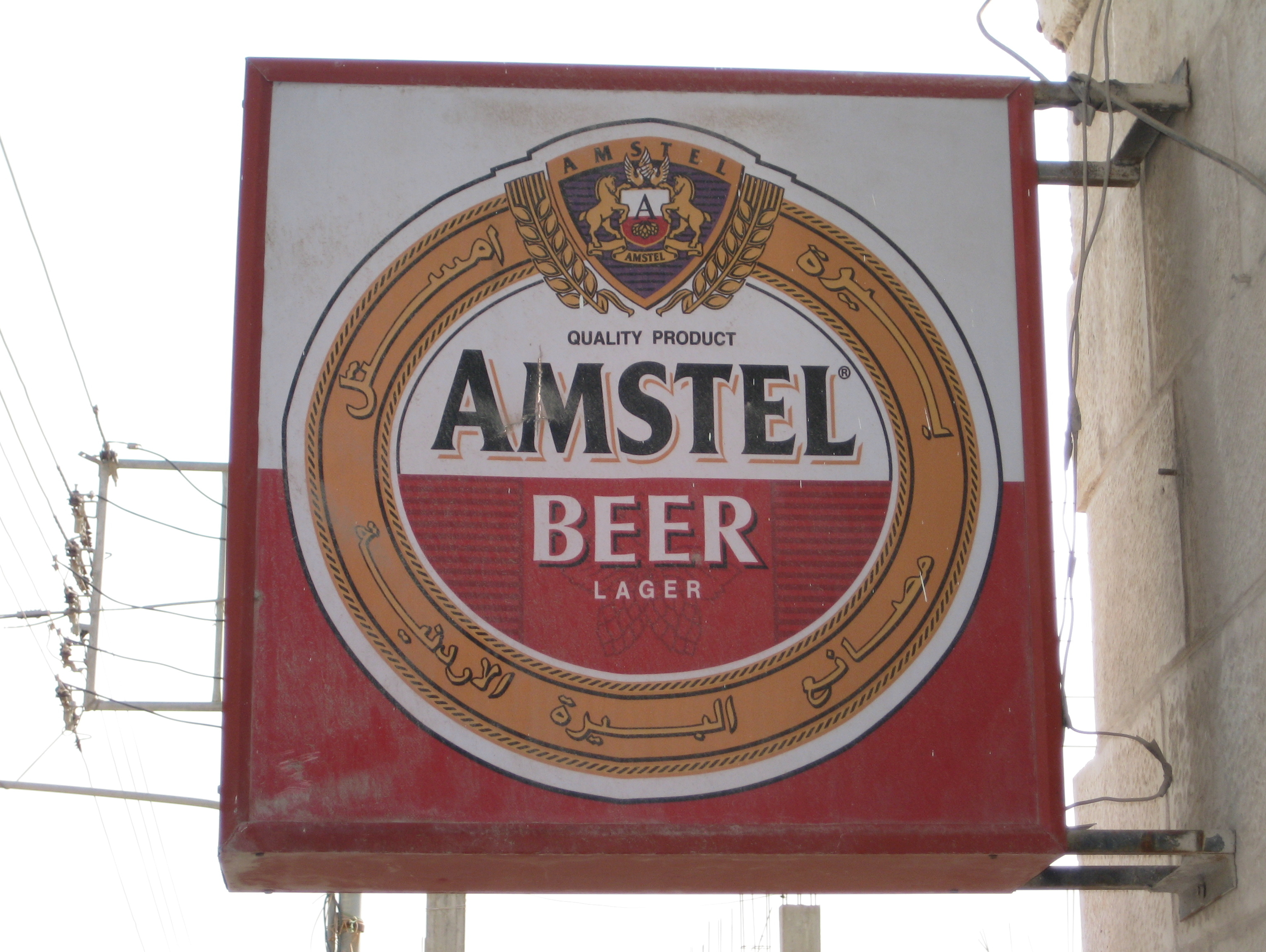 street sign of Amstel beer in Amman, Jordan